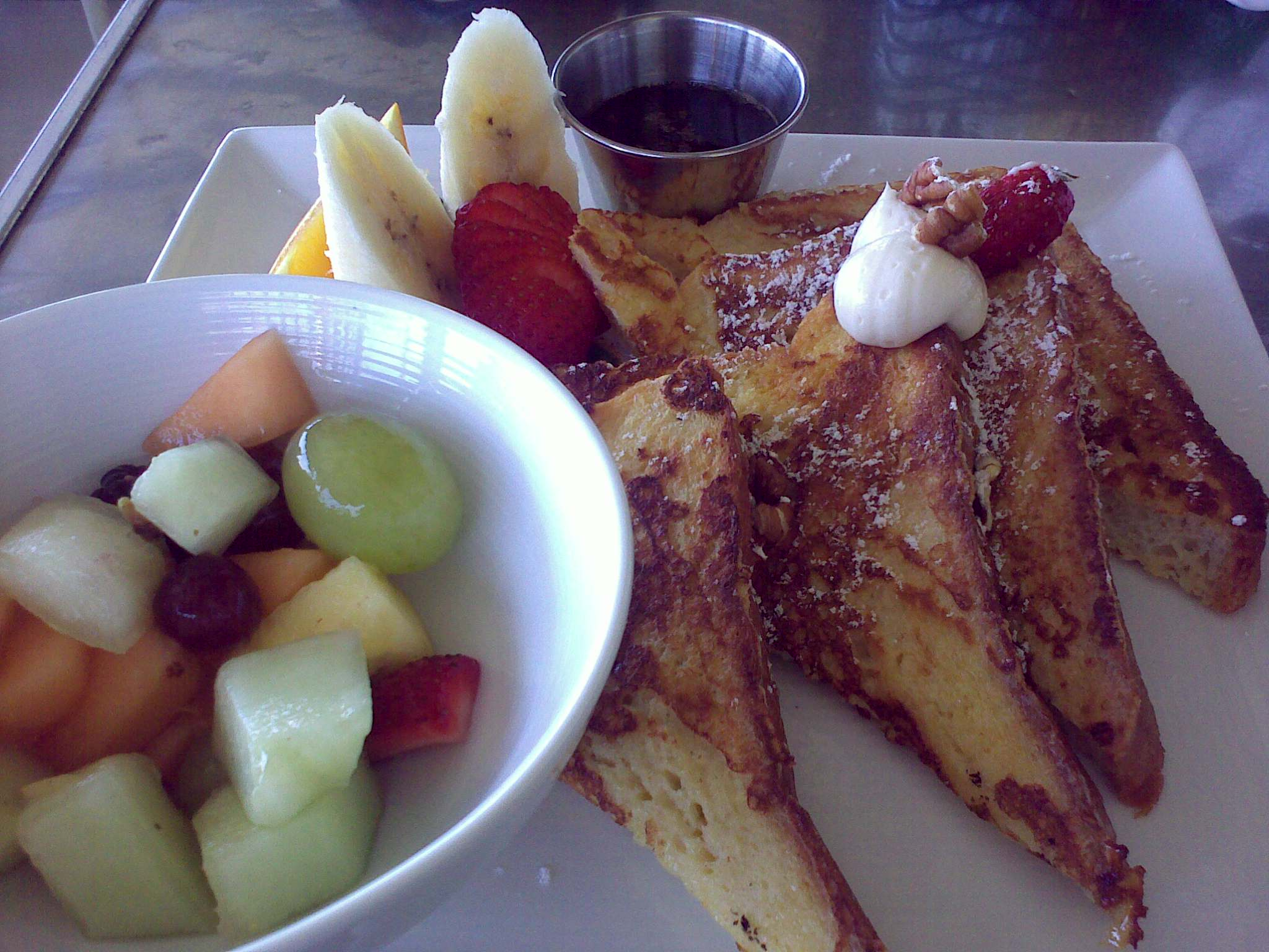 Pickled Onion Brunch, in Hamilton, Bermuda.